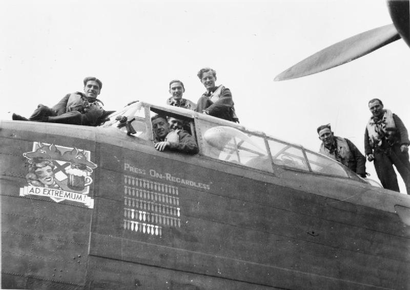 IWM caption : The crew of Avro Lancaster B Mark III, ED905 'BQ-F' "Press on regardless", of No. 550 Squadron RAF, pose on their aircraft after it had completed 70 operational sorties, at RAF North Killingholme, Yorkshire. They were to fly ED905's hundredth successful sortie on 4 November 1944. The crew consisted of: captain and pilot, Flight Lieutenant D A Shaw; navigator, Sergeant R Harris; engineer, Pilot Officer C Bruce; air bomber, Flight-Sergeant A Llanwarne; mid-upper gunner, Flight-Sergeant A Buckingham; and rear gunner, Flight-Sergeant E Griffiths.